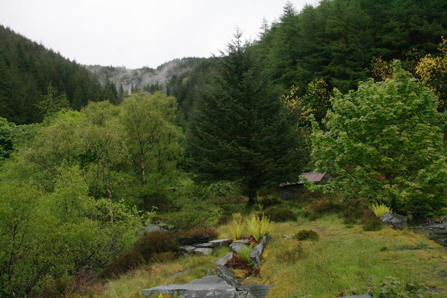 Abercorris Quarry buildings The overgrown remains of buildings with the waste tips from the quarry above.